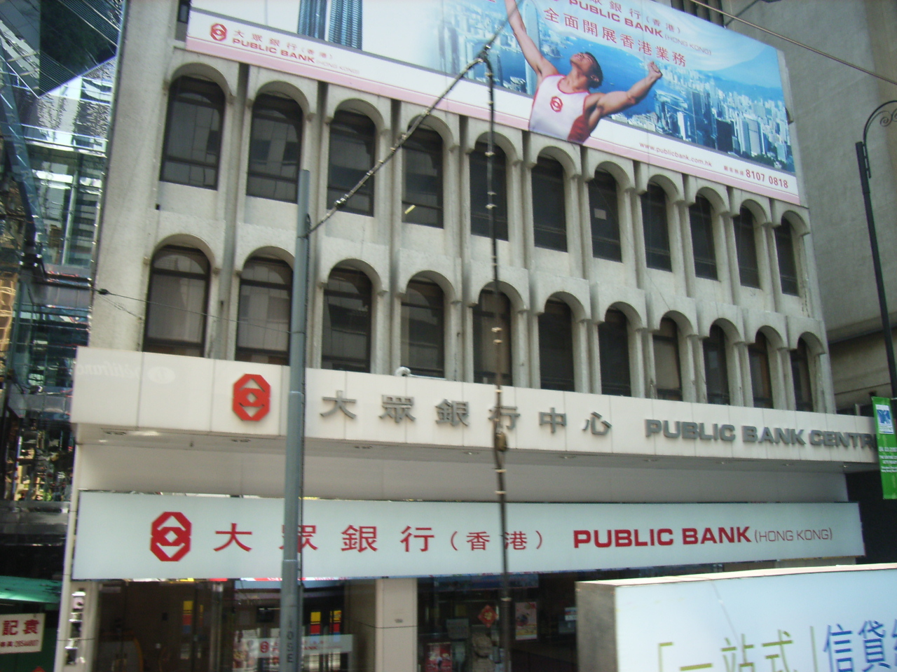 Public Bank (Hong Kong) Limited (大眾銀行 (香港)有限公司) is a licensed bank in Hong Kong. It has [ a commercial building] in Central, Hong Kong. Photo by me.